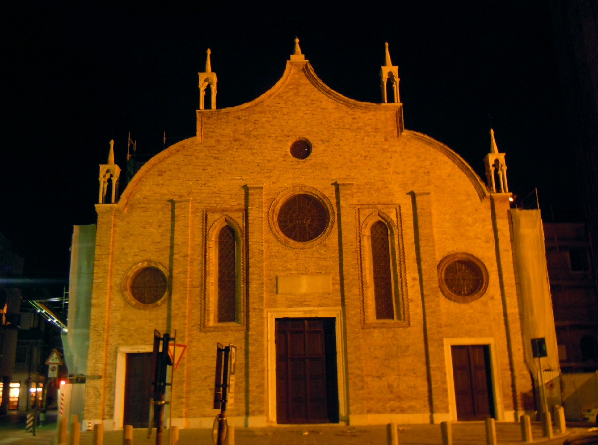 Treviso - S. Maria maggiore